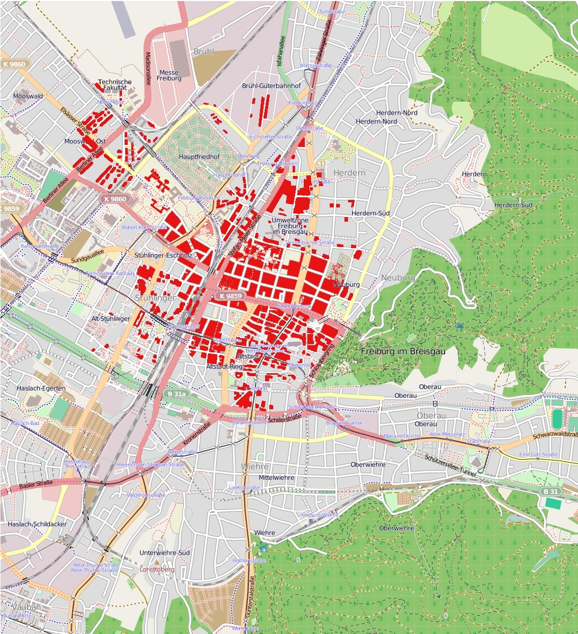 amage map of operation tigerfish 27th november 1944. Totally destroyed areas are marked red. Map is based on Map M14 Nr. 89 cityarchive Freiburg. This map may be incomplete, and may contain errors. Don't rely solely on it